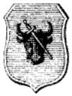 Pomian coat of arms by Aleksander Borysowicz Lakier